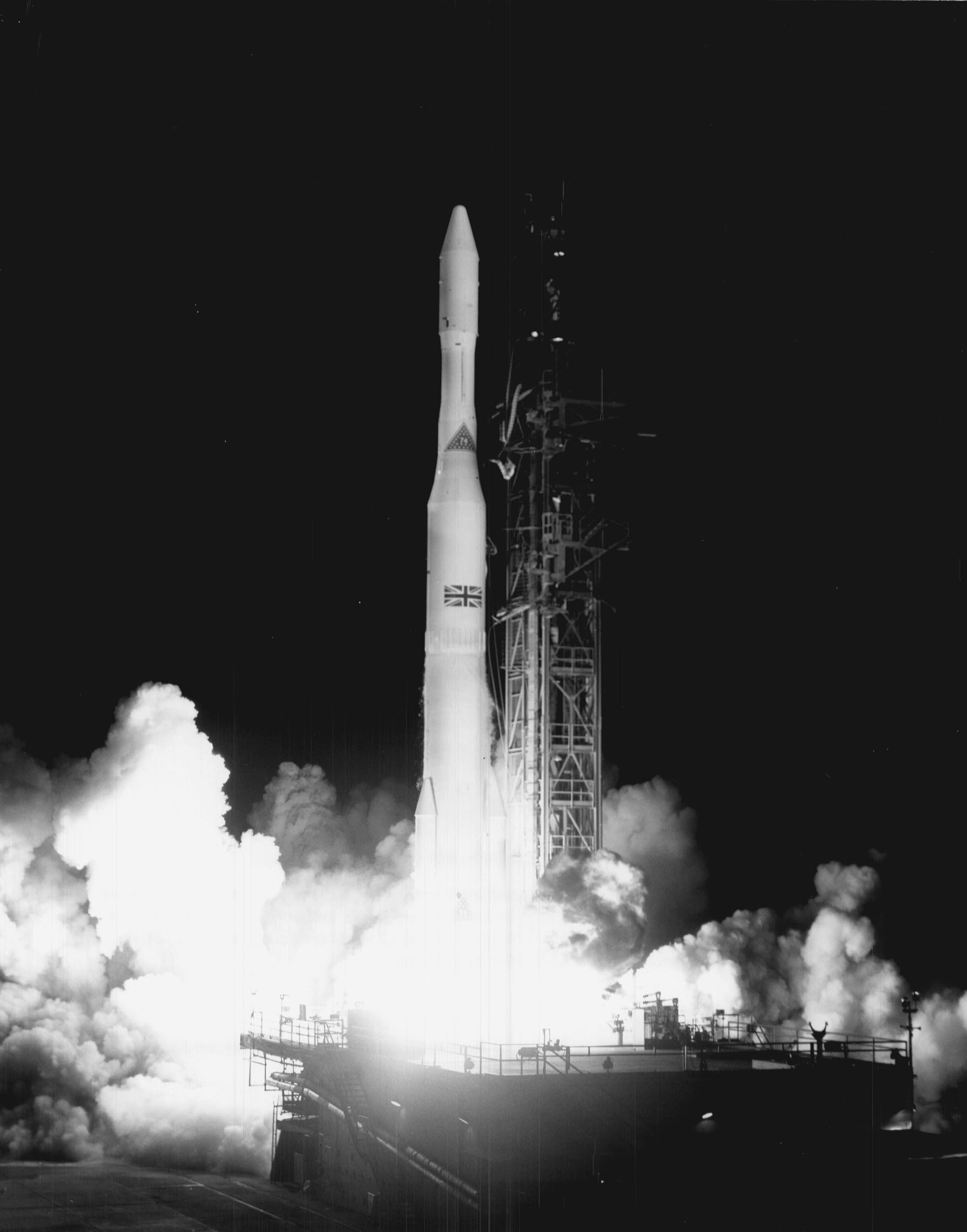 A British Skynet communications satellite was launched from Cape kennedy's Complex 17 at 7:37 p.m. EST today by the KSC Unmanned Launch Operations organization. The satellite is to enter a synchronous orbit 22,500 miles above the Earth over the Indian Ocean off the East Coast of Africa. It is the first of two satellites to be orbited to provide Great Britain with a secure communications link between points as far apart as England and Singapore.